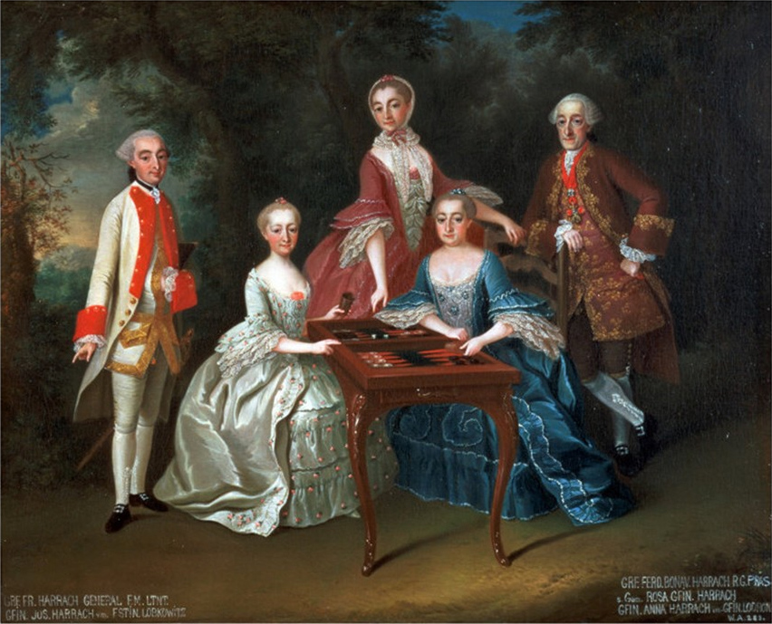 Group portrait of the Harrach family playing backgammon. The depicted are from the left: Count Franz Xaver Harrach (1732-1781), Countess Maria Josephina Harrach, widowed Pss Liechtenstein, married Css Lobkowicz (1727-1788), Countess Maria Rosa Harrach, married Css Harrach (1721-1785), Countess Maria Anna Harrach, married Css Lodron (1725-1780) and Count Ferdinand Bonaventura II. Anton Harrach (1708-1778).